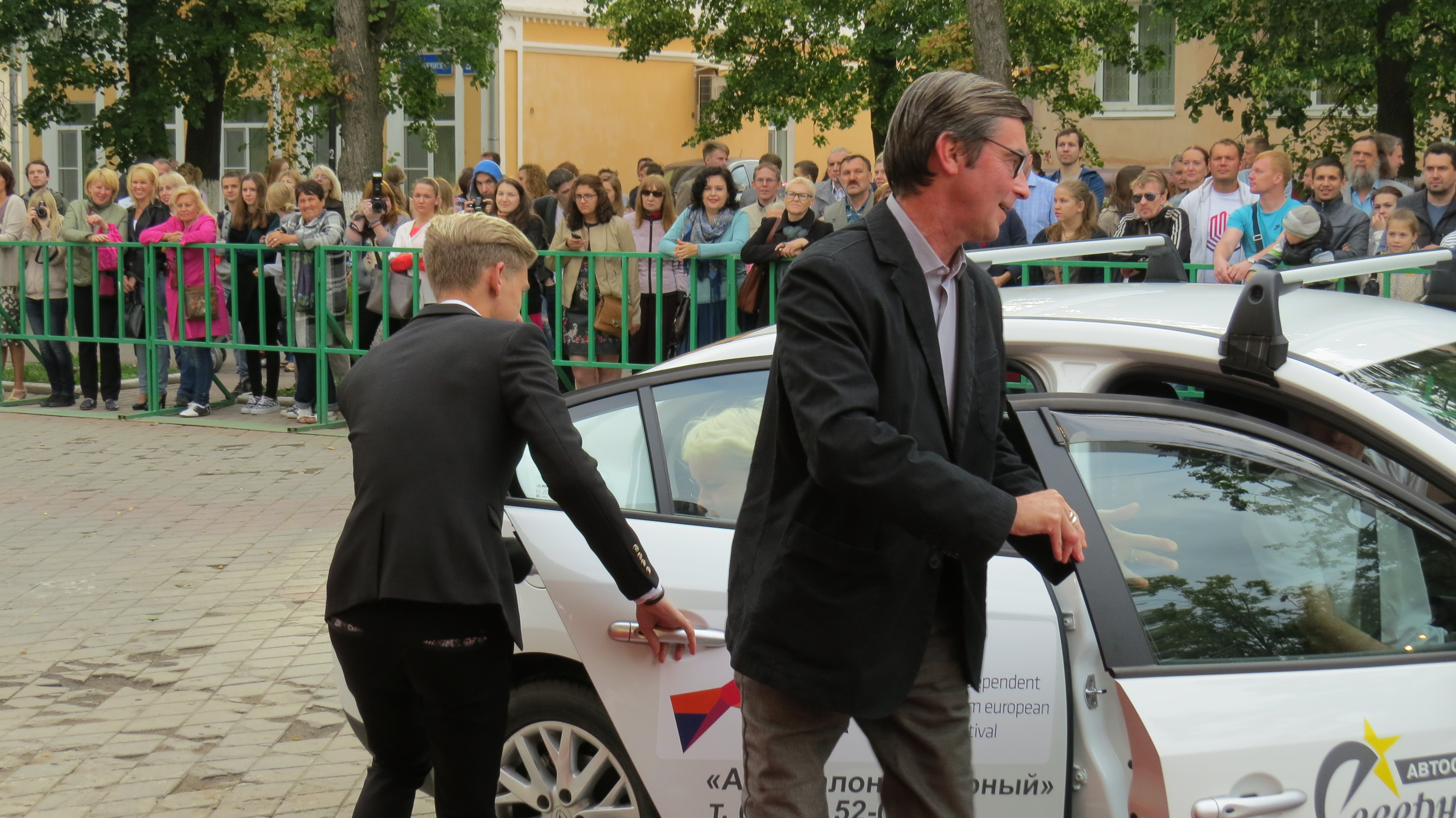 Voices International Festival 2015 in Vologda.